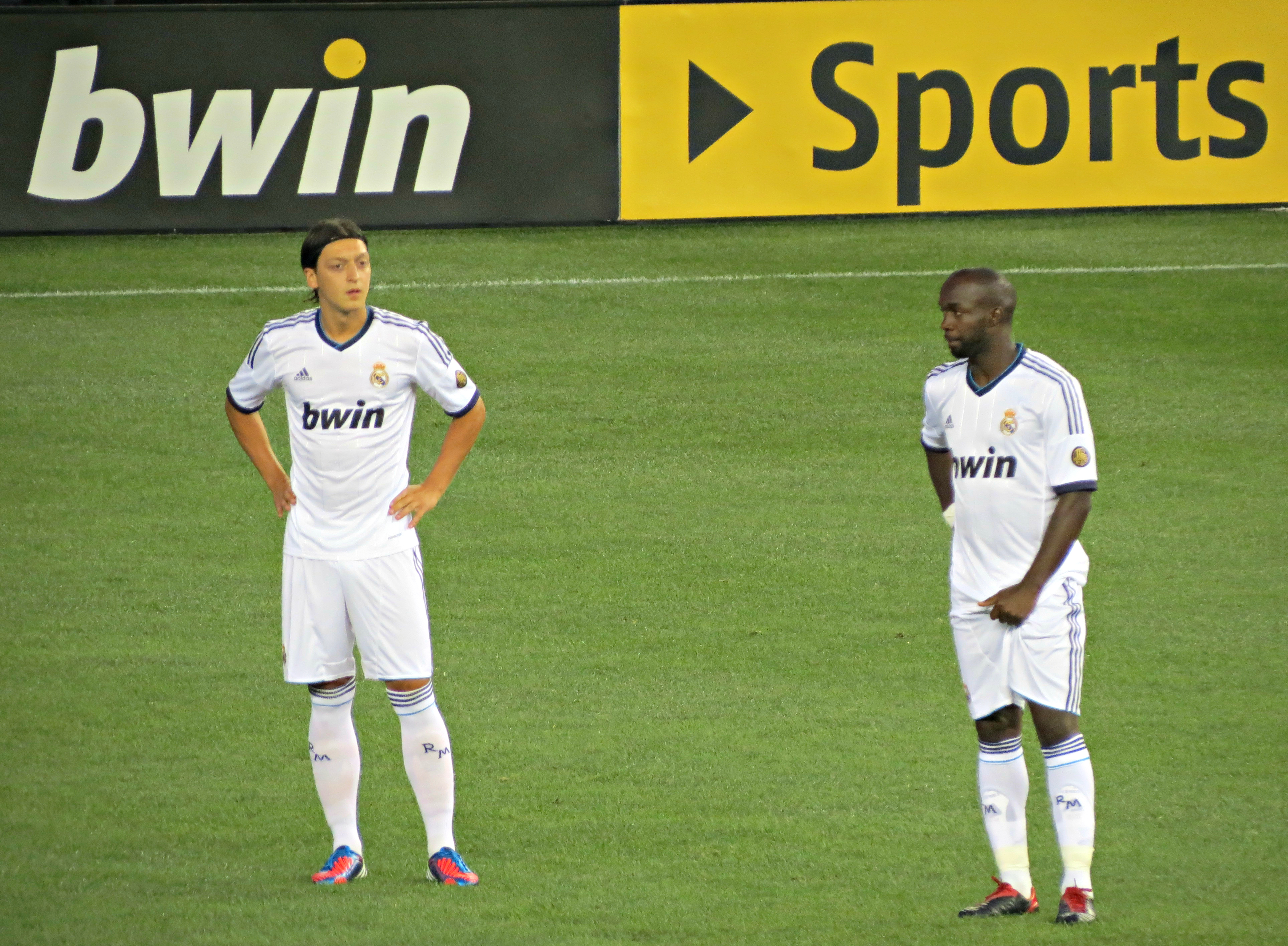 Mesut Ozil and Lassana Diarra of Real Madrd